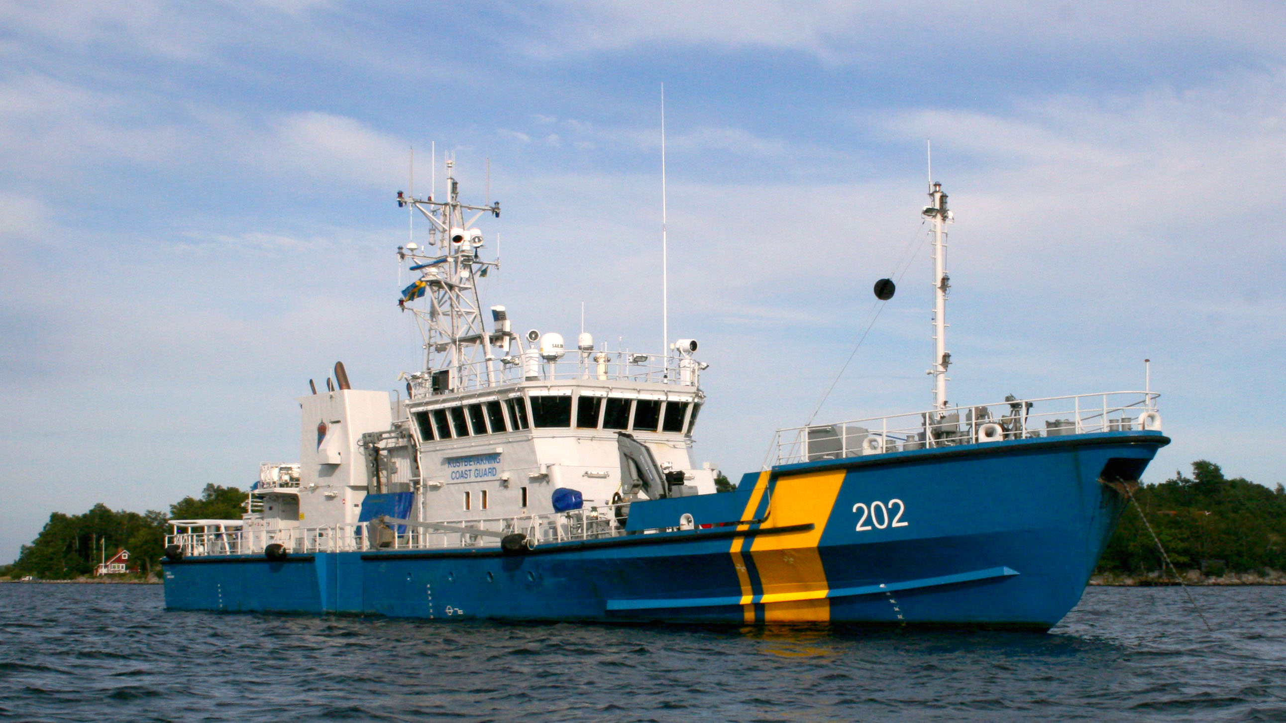 Swedish Coast Guard vessel